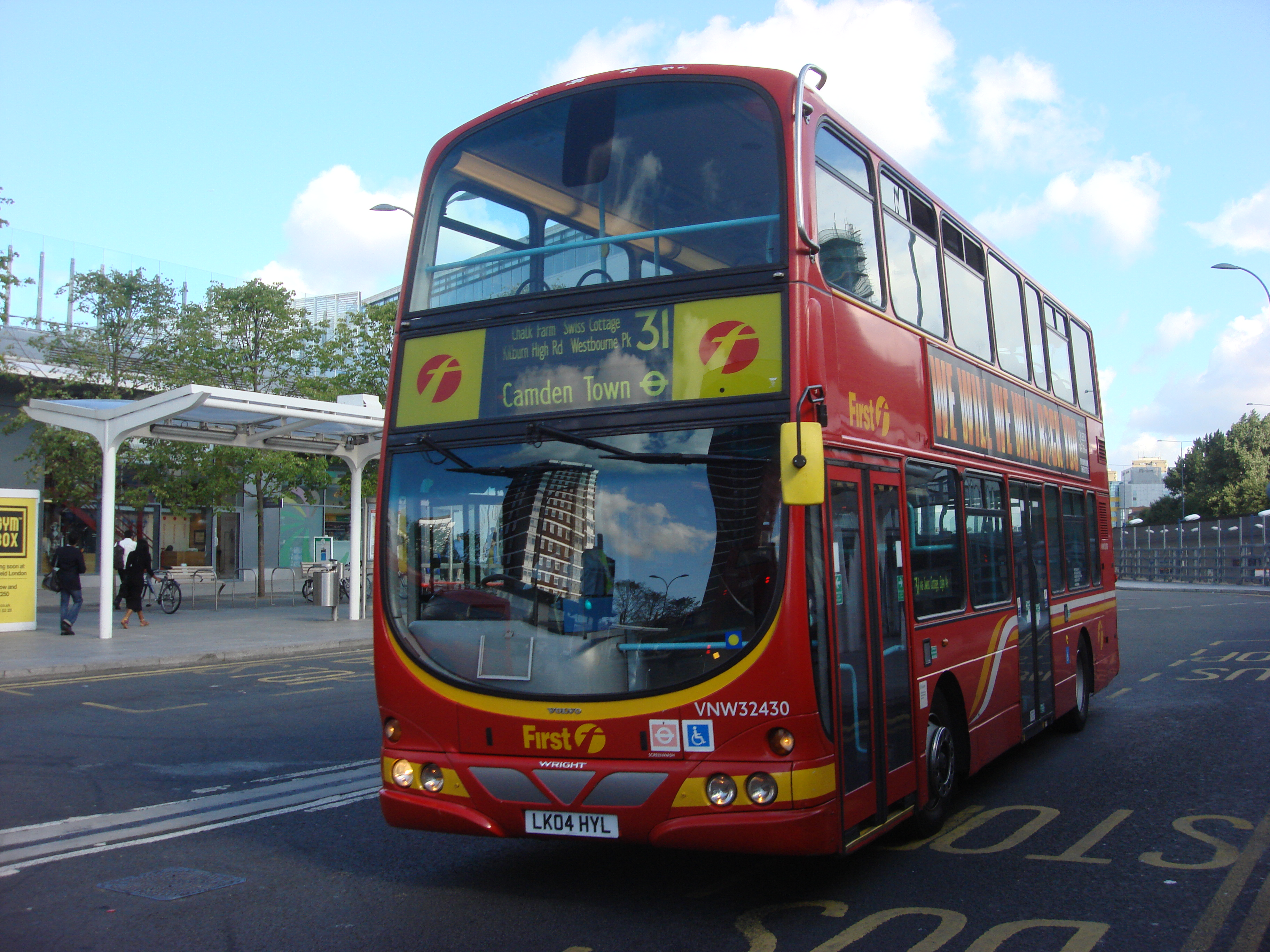 A London Bus .